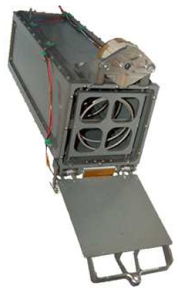 Poly Picosatellite Orbital Deployer - after deployement